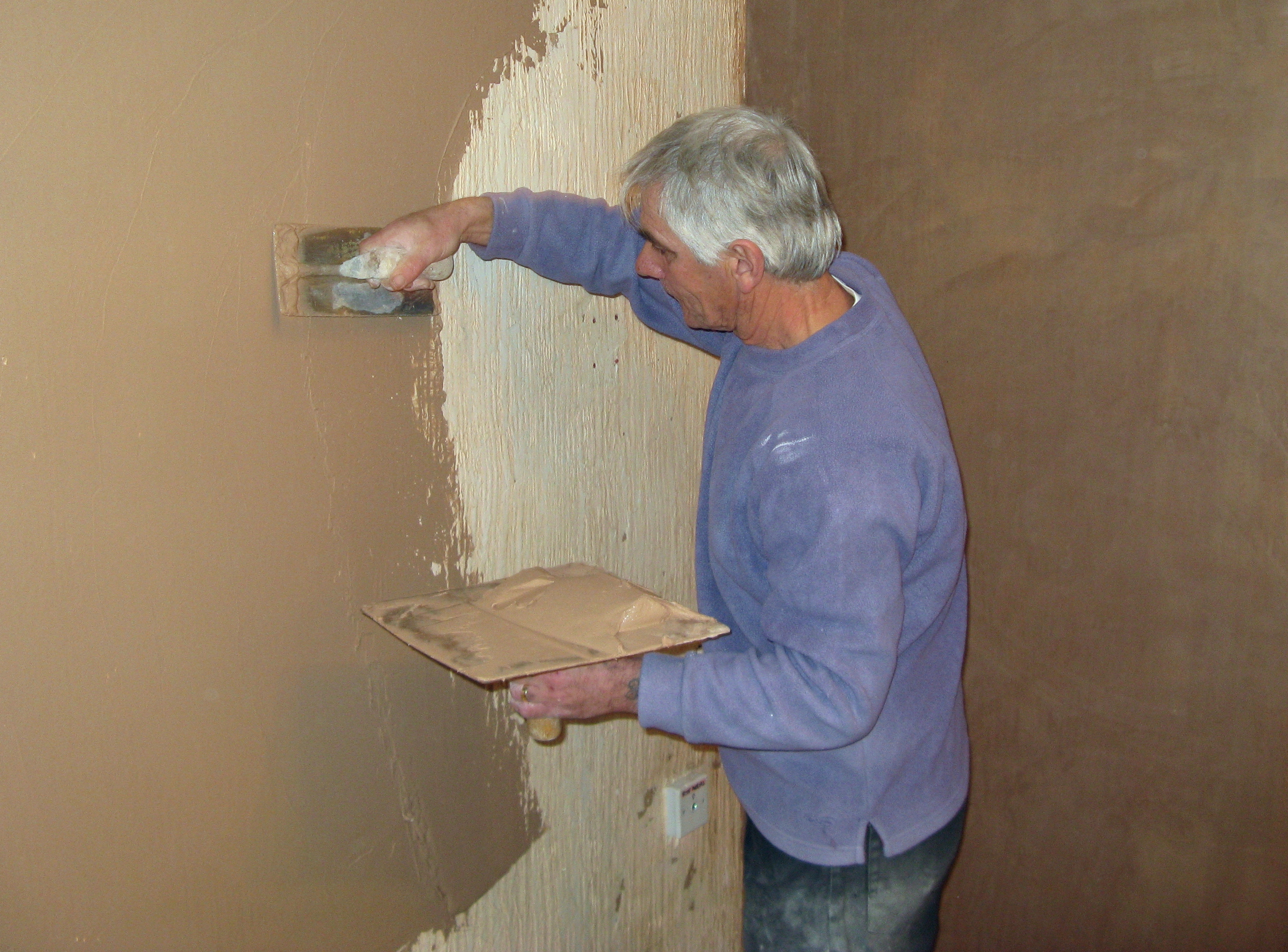 A plasterer plasters a wall in a house in Yate, South Gloucestershire, England.